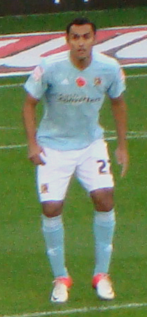 Ahmed Elmohamady. Image cropped from original at flickr.